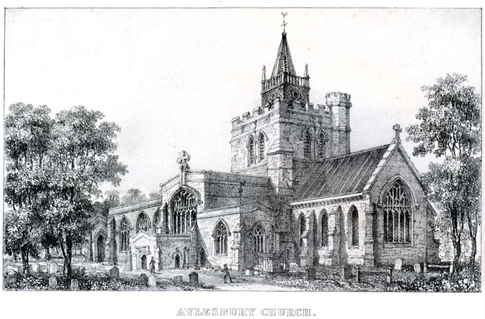 St Mary the Virgin, Aylesbury (Pre 1869)